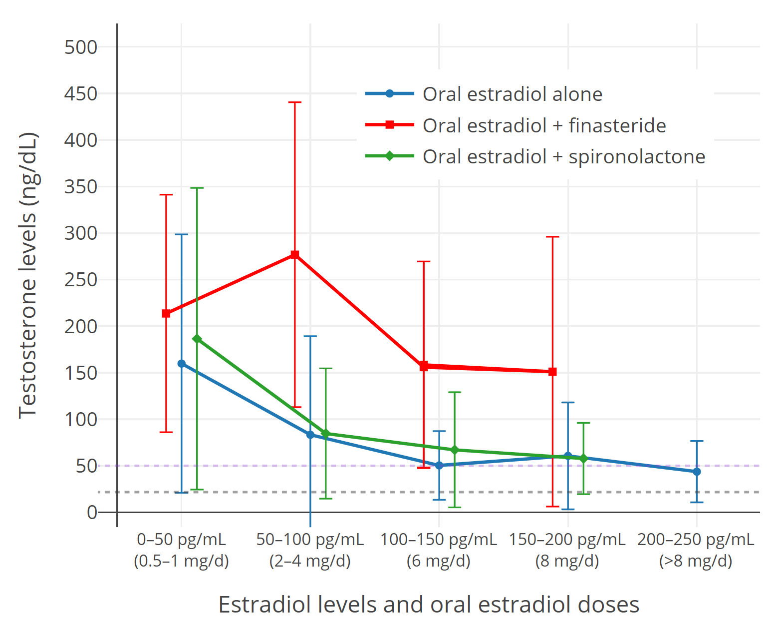 Mean levels of testosterone (ng/mL) as a function of mean estradiol levels (pg/mL) (and their corresponding estradiol dosages, mg/day) during therapy with oral estradiol (E2) alone or in combination with finasteride (5 mg/day) or spironolactone (200 mg/day) in 166 transgender women. The dashed horizontal purple line is the upper limit for the female/castrate range (~50 ng/dL) and the dashed horizontal grey line is the mean testosterone level in a comparison group of gonadectomized transgender women (21.7 pg/mL). The error bars represent standard deviations from the mean. Source of the values: (2018). "Hormonal Treatment of Transgender Women with Oral Estradiol". Transgend Health 3 (1): 74–81. PMID 29756046. PMC: 5944393.